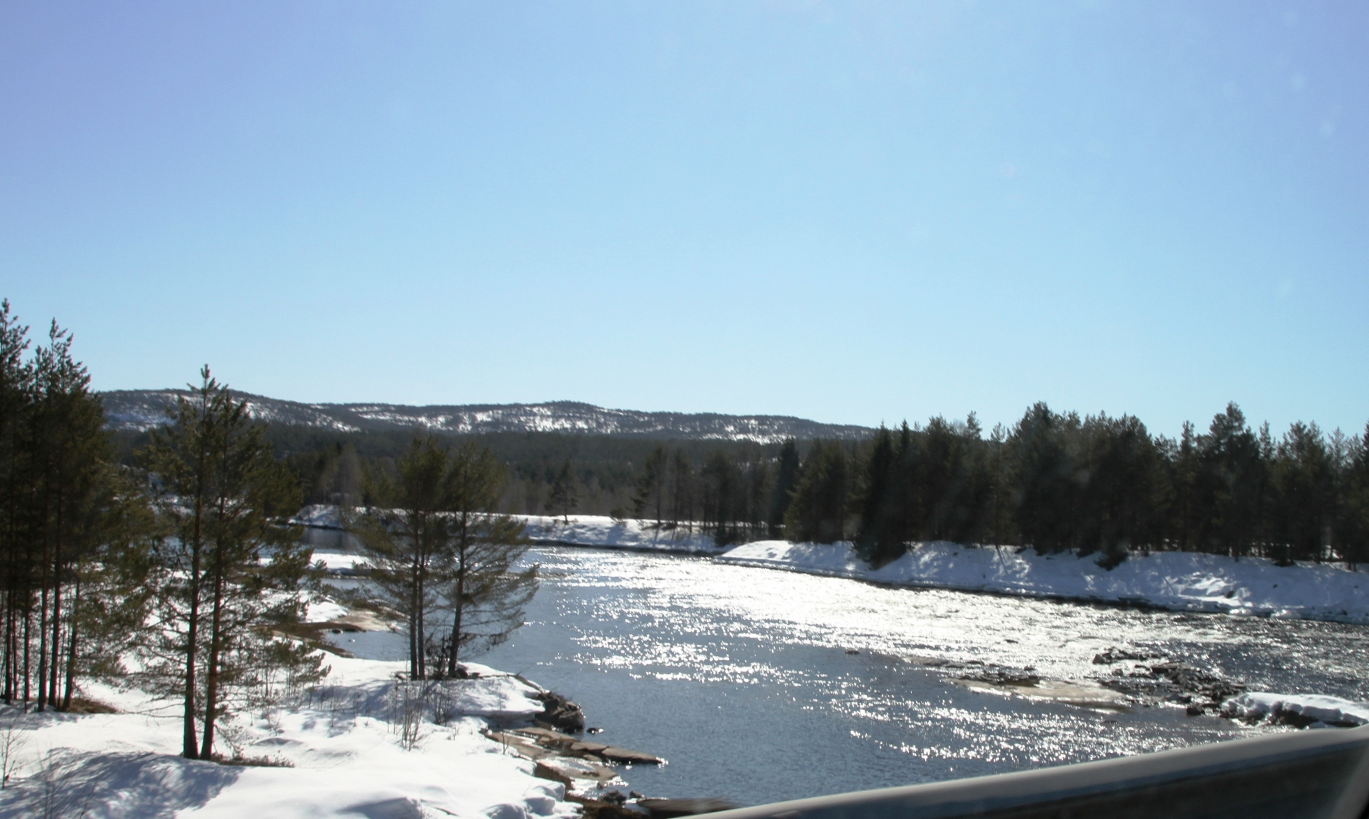 Image from the Nidelva river watershed, southof Åmli village, Åmli municipality - northeastern Aust-Agder county, south Norway